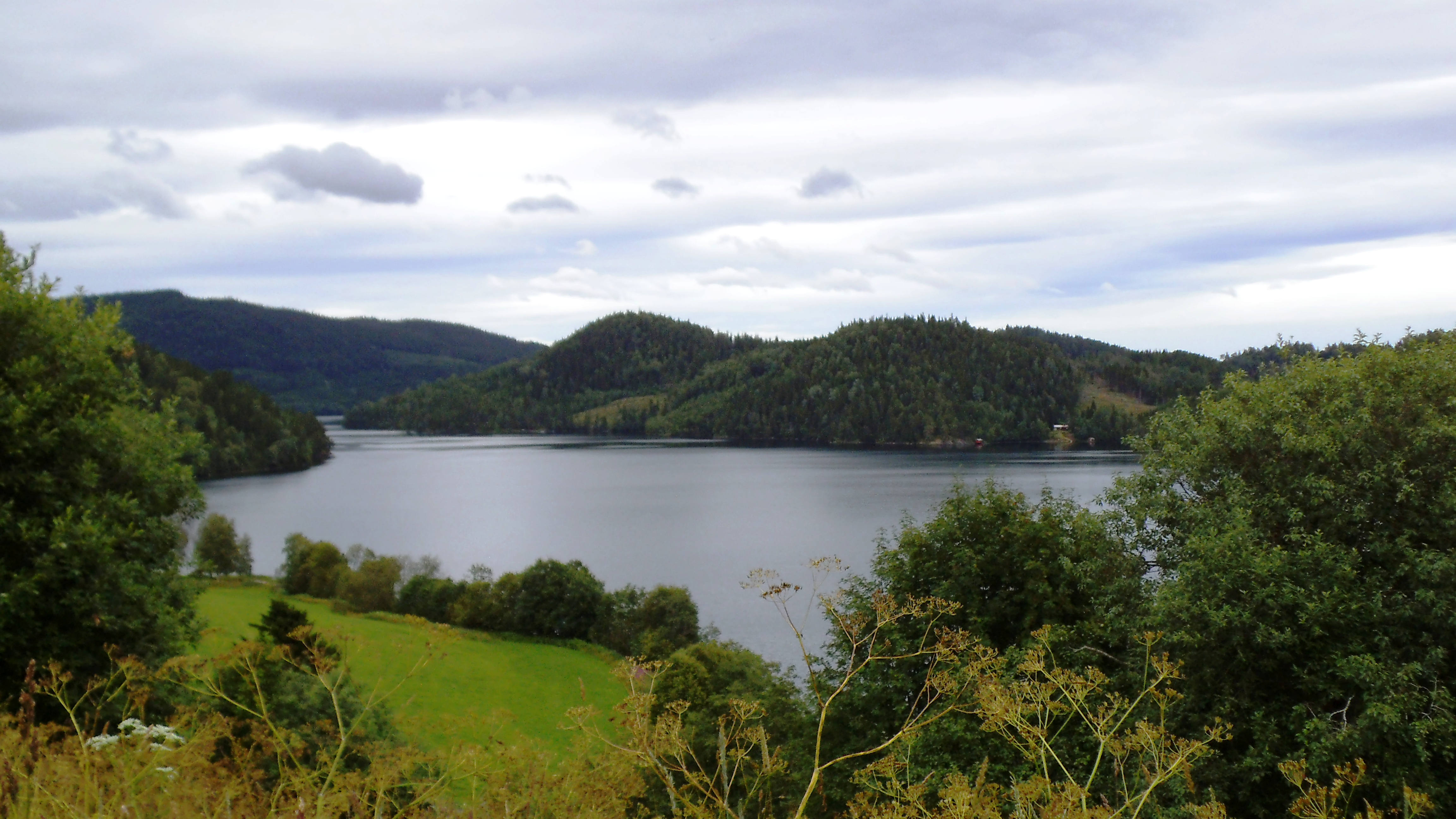 Skjeggstadvatnet, a small lake in Korsvegen, Melhus. Seen from the south part of the lake.